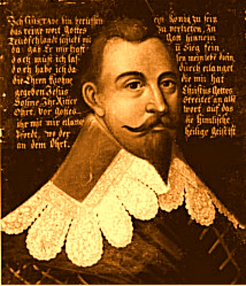 Boguslaw XIV